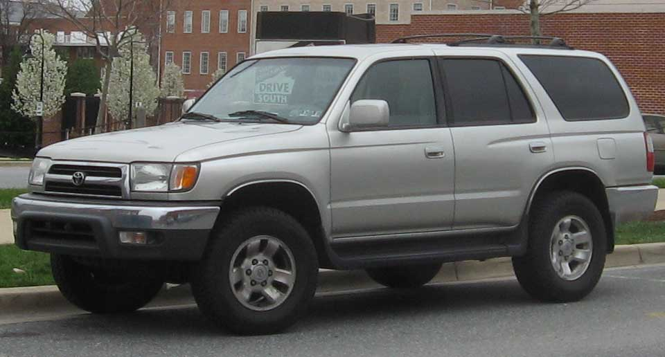 1999 Toyota 4Runner photographed in College Park, Maryland, USA.